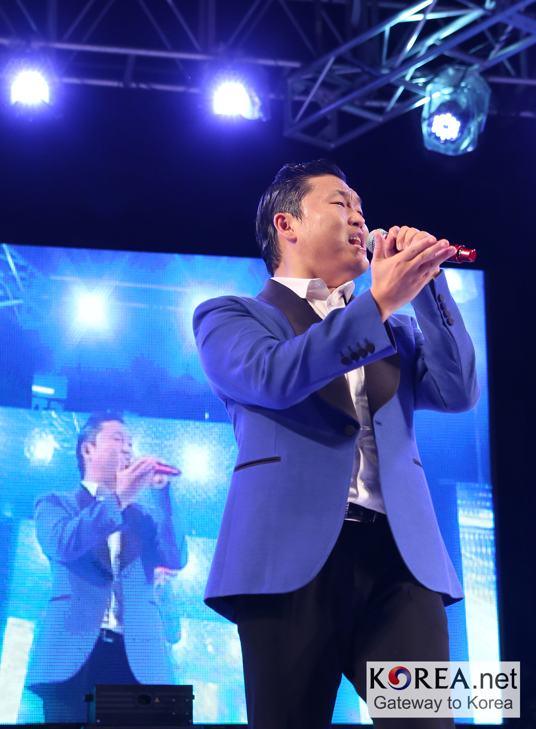 PSY performed 'Gangnam Style' and other his songs for Dongnam Health College students, Suwon, Korea.